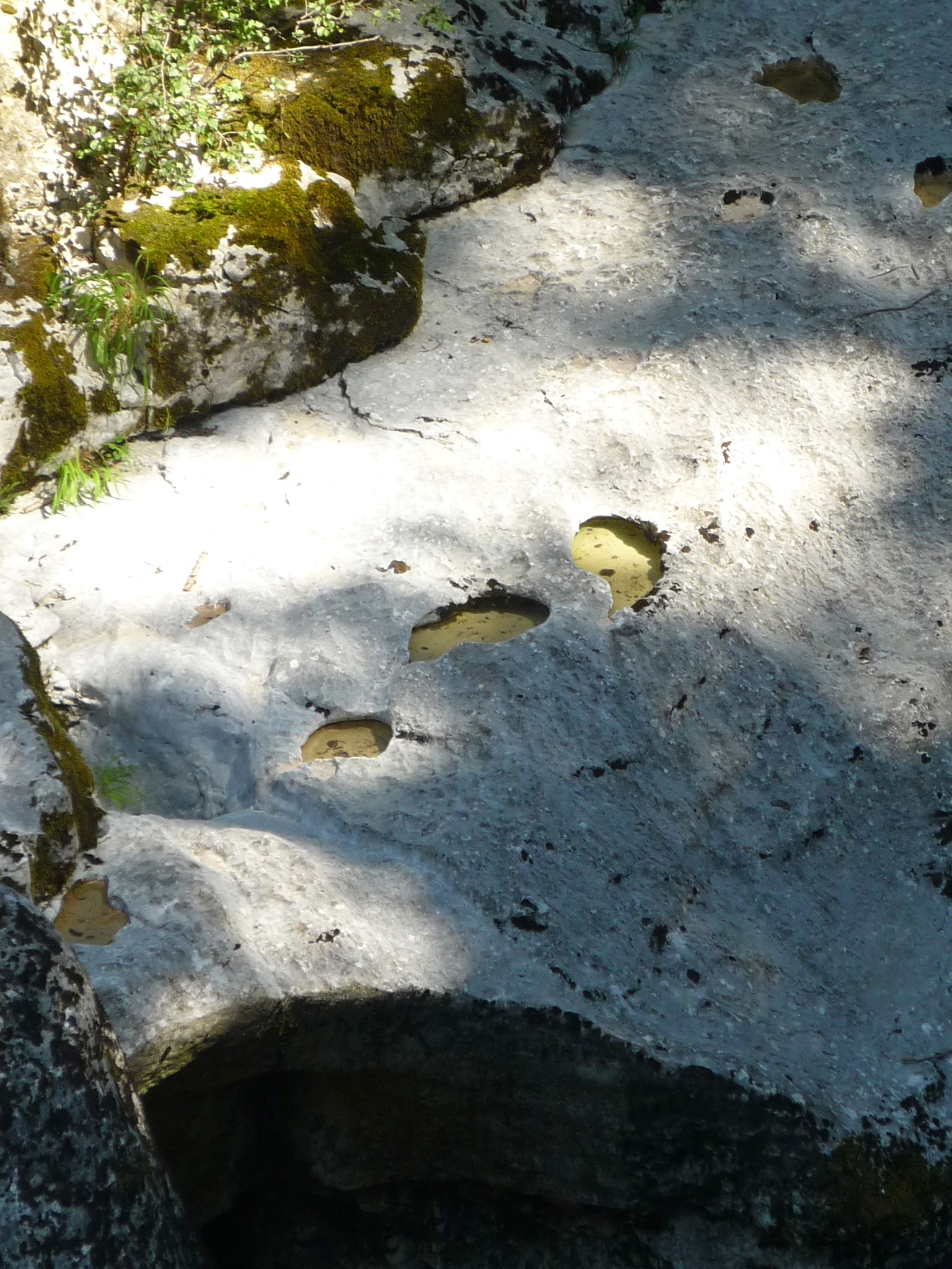 Kamenitzas in the Mer de Rochers just below the Fier Gorges, Montrottier, Haute-Savoie, France